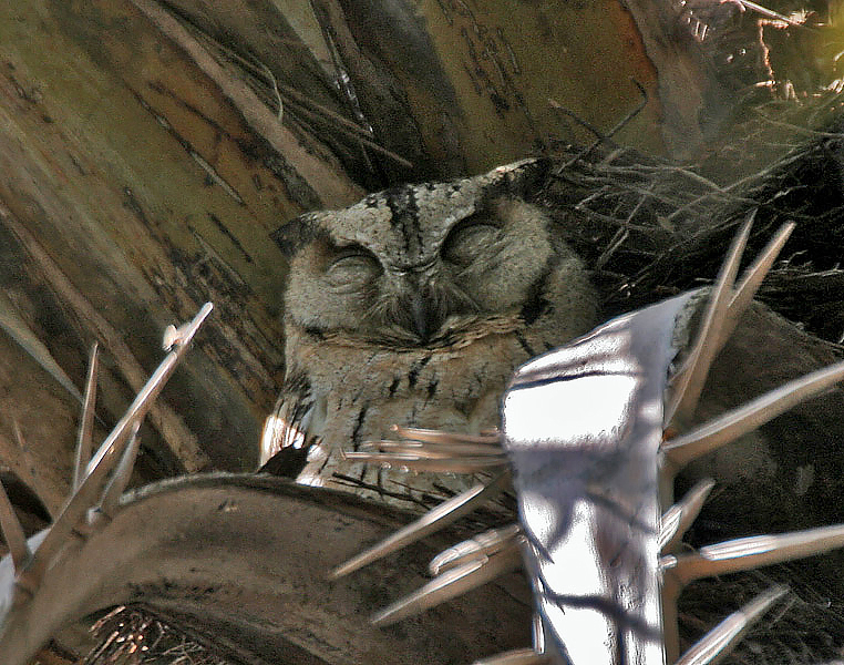 Indian Scops-owl Otus bakkamoena at Keoladeo National Park, Bharatpur, Rajasthan, India.